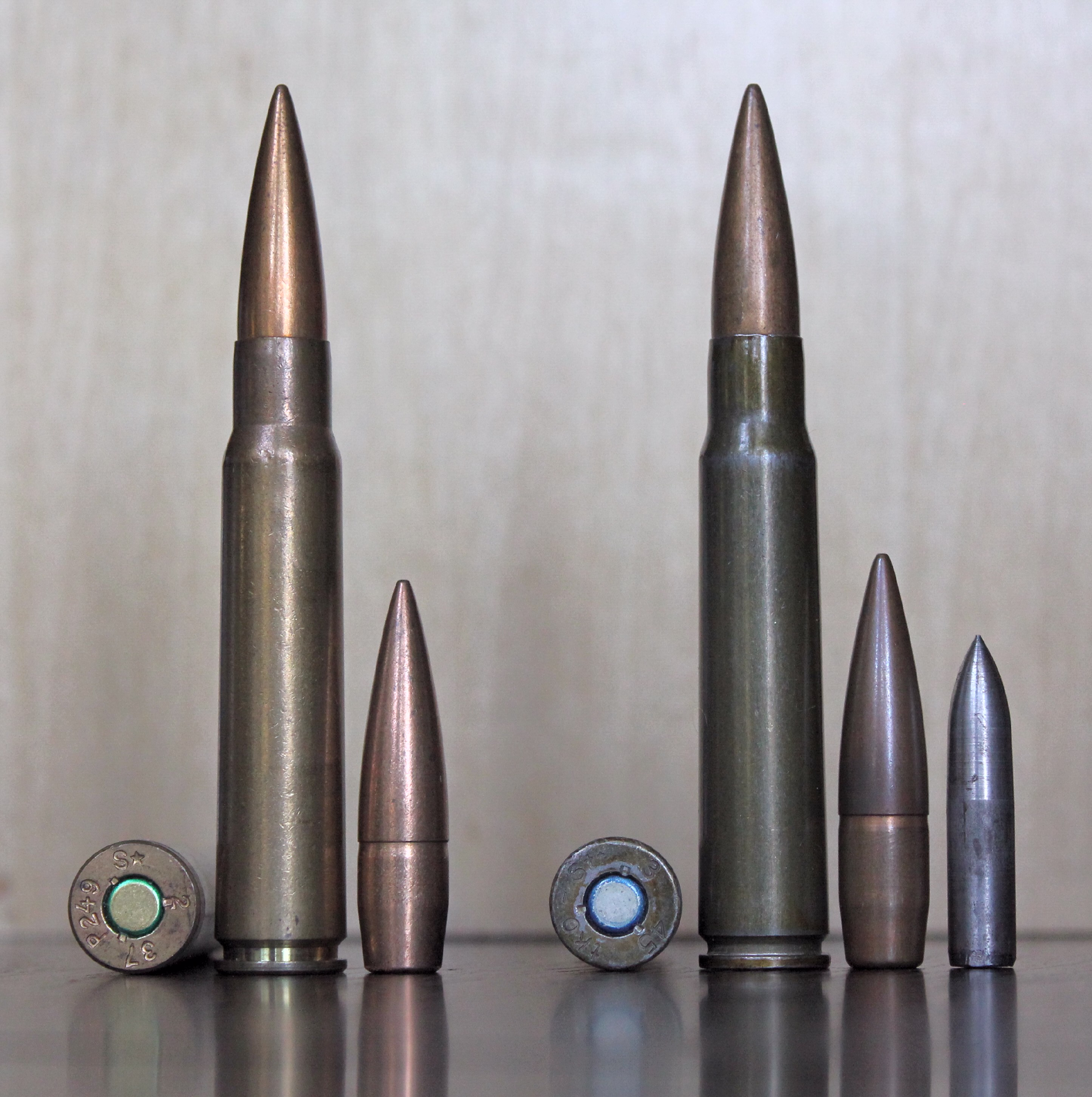 7.9 mm German military cartridges beside their boat-tailed projectiles Left: 1937 produced sS (schweres Spitzgeschoß) (brass casing, loaded with a 12.8 g (197.5 grain) lead core bullet) Right: 1945 produced SmE (Spitz mit Eisenkern) (laquered steel casing, 11.55 g (178 grain) lead filled bullet with depending on the subexecution a 5.47 to 5.79 g 84.4 tot 89.3 grains) mild steel core)